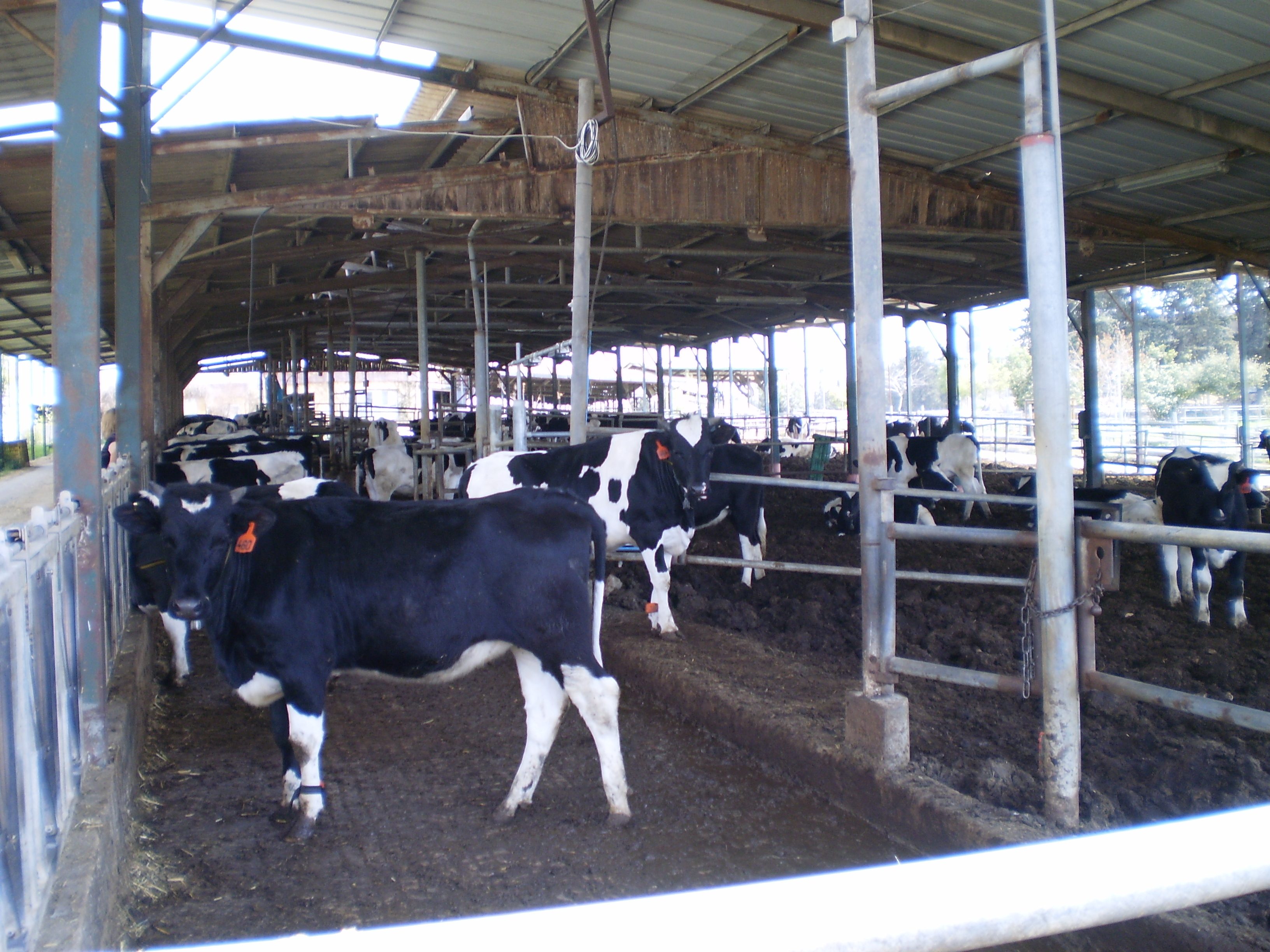 Harduf's barn